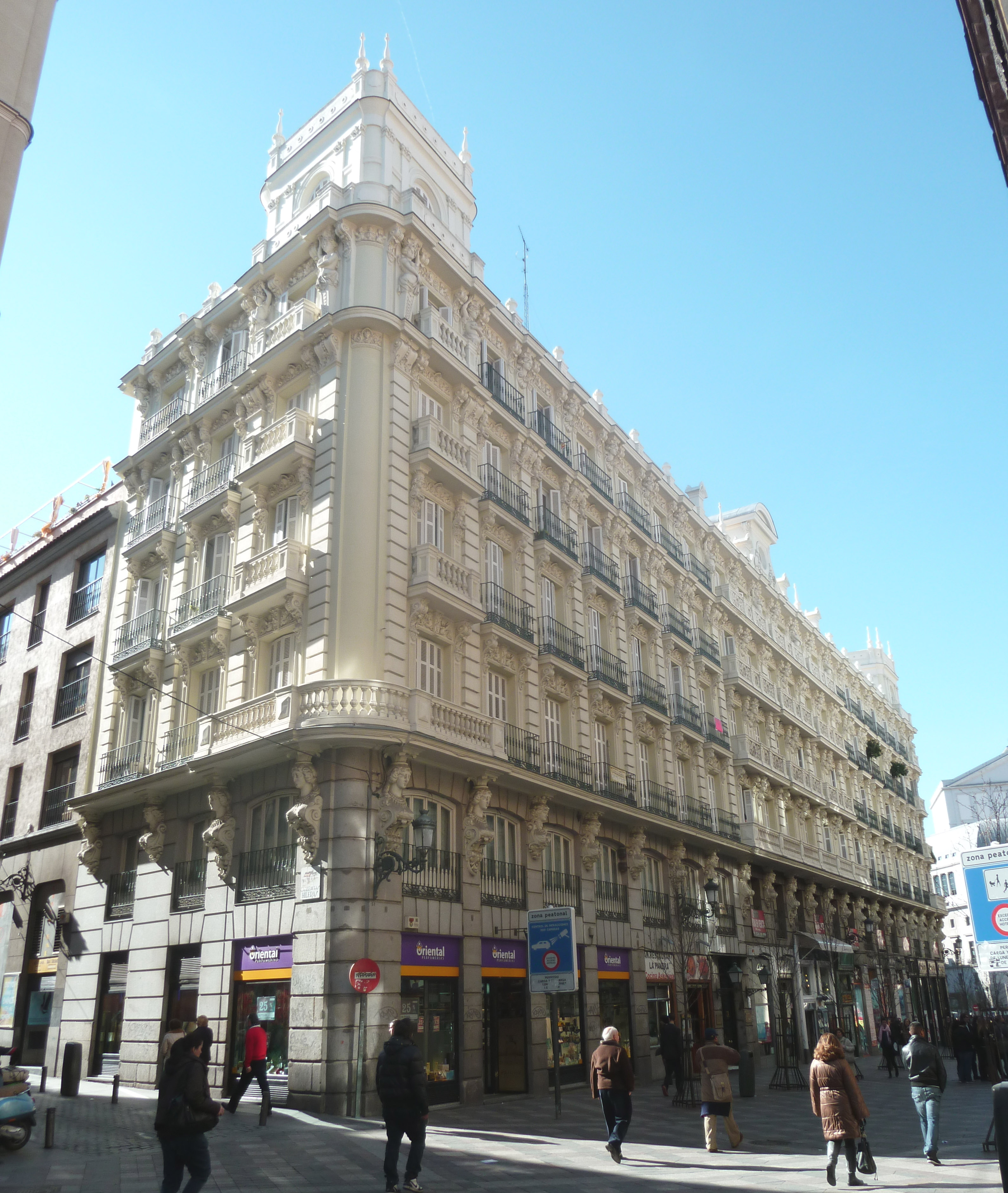 Former Hotel Internacional in Madrid (Spain).